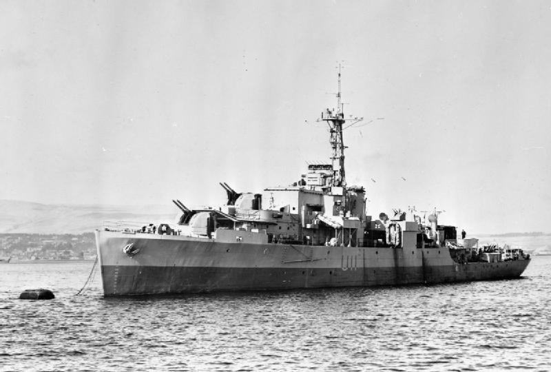 Photograph of British Black Swan class sloop HMS Lark.